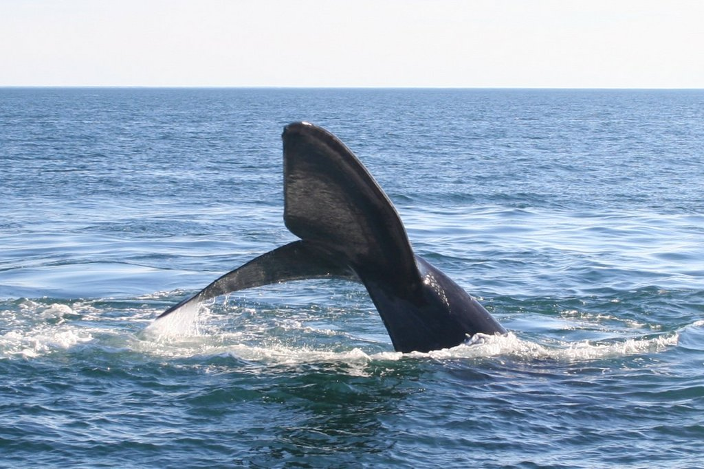 Southern right whale (Peninsula Valdés, Patagonia, Argentina)